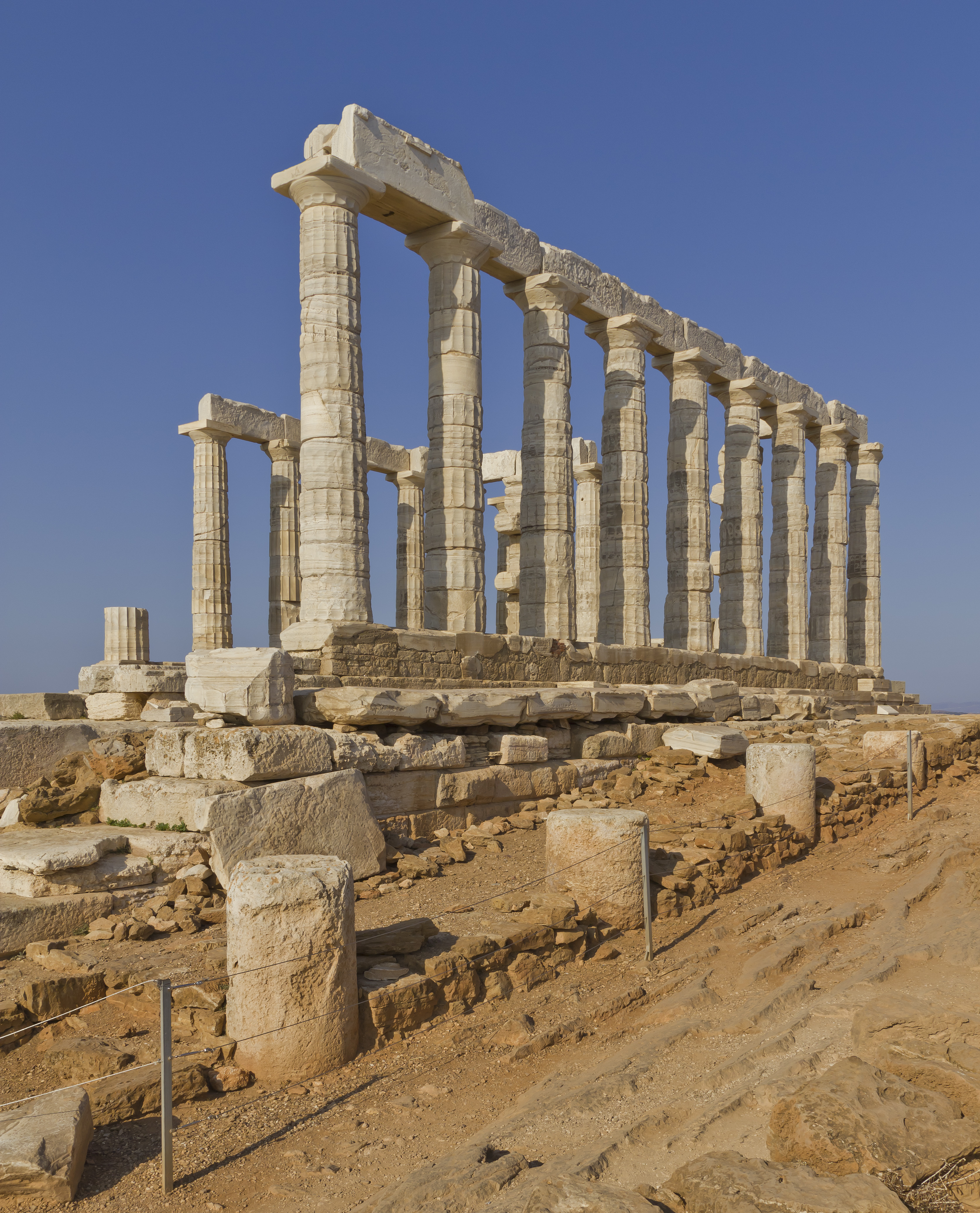 Cape Sounion (Attica, Greece) – Temple of Poseidon and Archaeological site